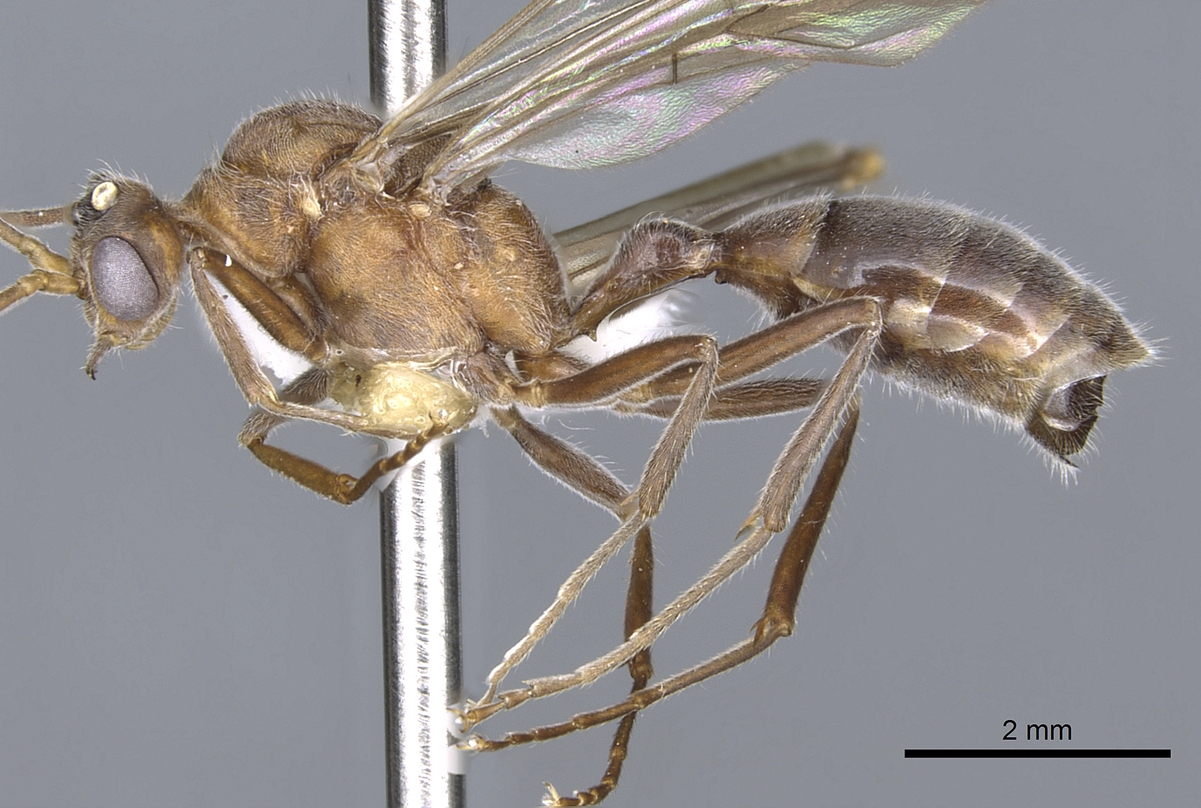 Casent image of a male Nothomyrmecia macrops